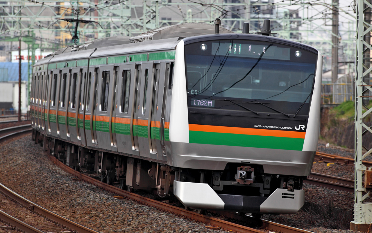 JR East E233-3000 series EMU set E51 on the Tōkaidō Main Line between Yokohama and Kawasaki